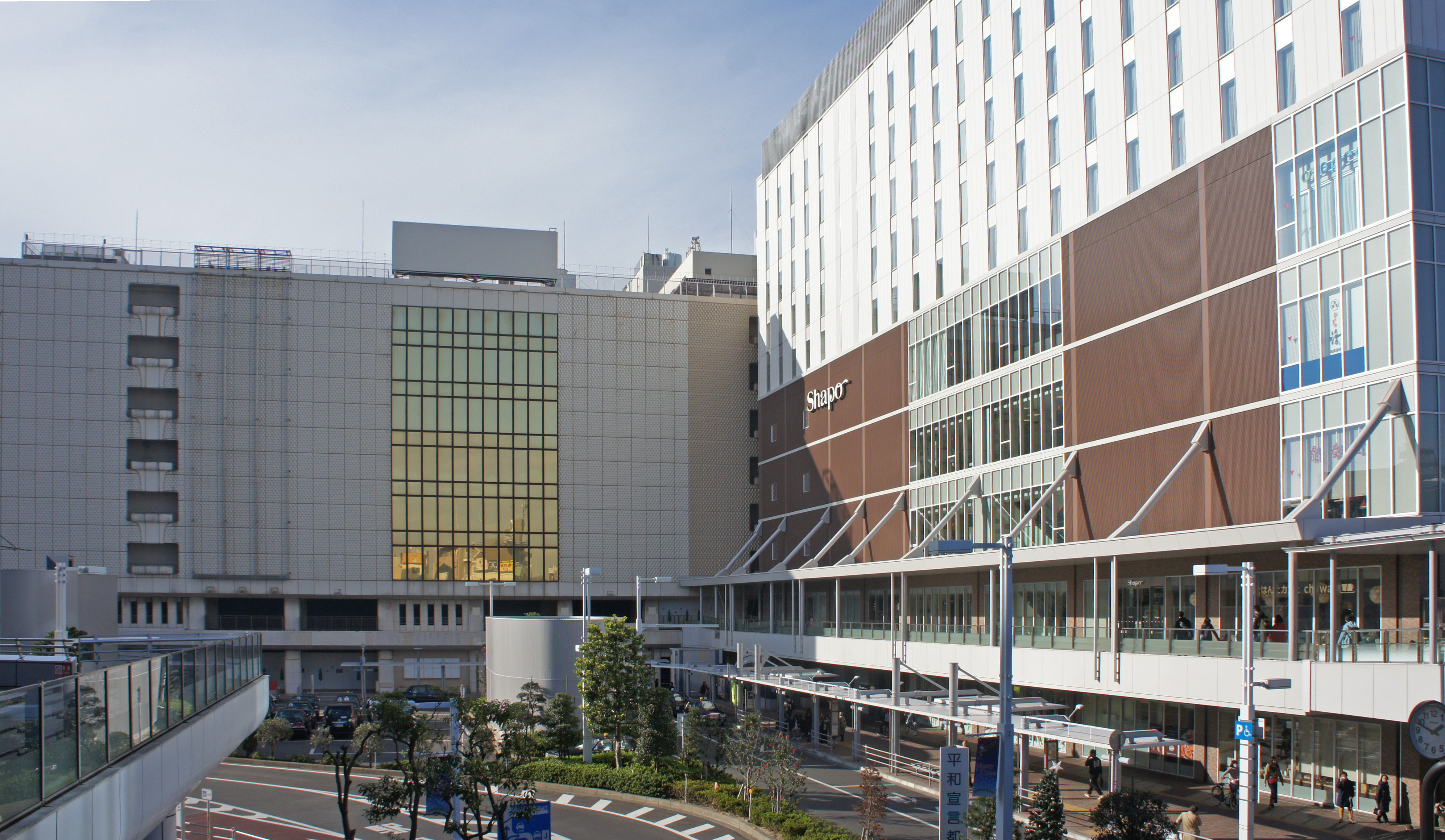 Funabashi Station Near South Exit